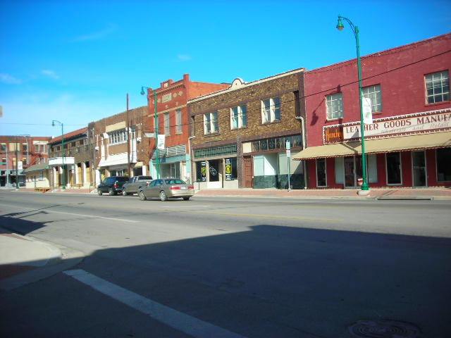 Businesses along Oak Street in Mineral Wells, Texas.